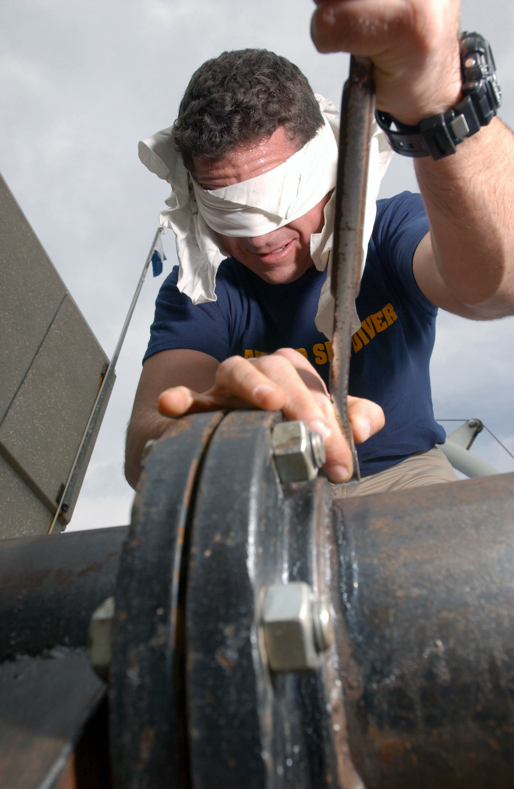 Coastal System Station, Panama City, Fla. (Feb. 20, 2003) -- Yeoman 3rd Class Tim Taylor, a reservist assigned to Mobile Diving and Salvage Unit Det. 220 based in Alameda, Calif. practices building a flange while blindfolded. The exercise indoctrinates the students to work in the dark environment of the ocean. U.S. Navy photo by Chief Photographer’s Mate Chris Desmond. (RELEASED)